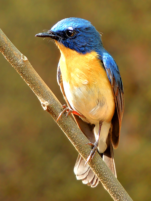 Tickell's Blue Flycatcher Cyornis tickelliae in Mangaon, Raigad, Maharashtra, India. Photograph By Shantanu Kuveskar